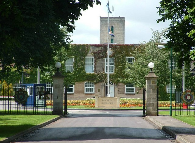 Headquarters, Buckley Barracks, Hullavington Formerly the Station Headquarters (SHQ) of RAF Hullavington.